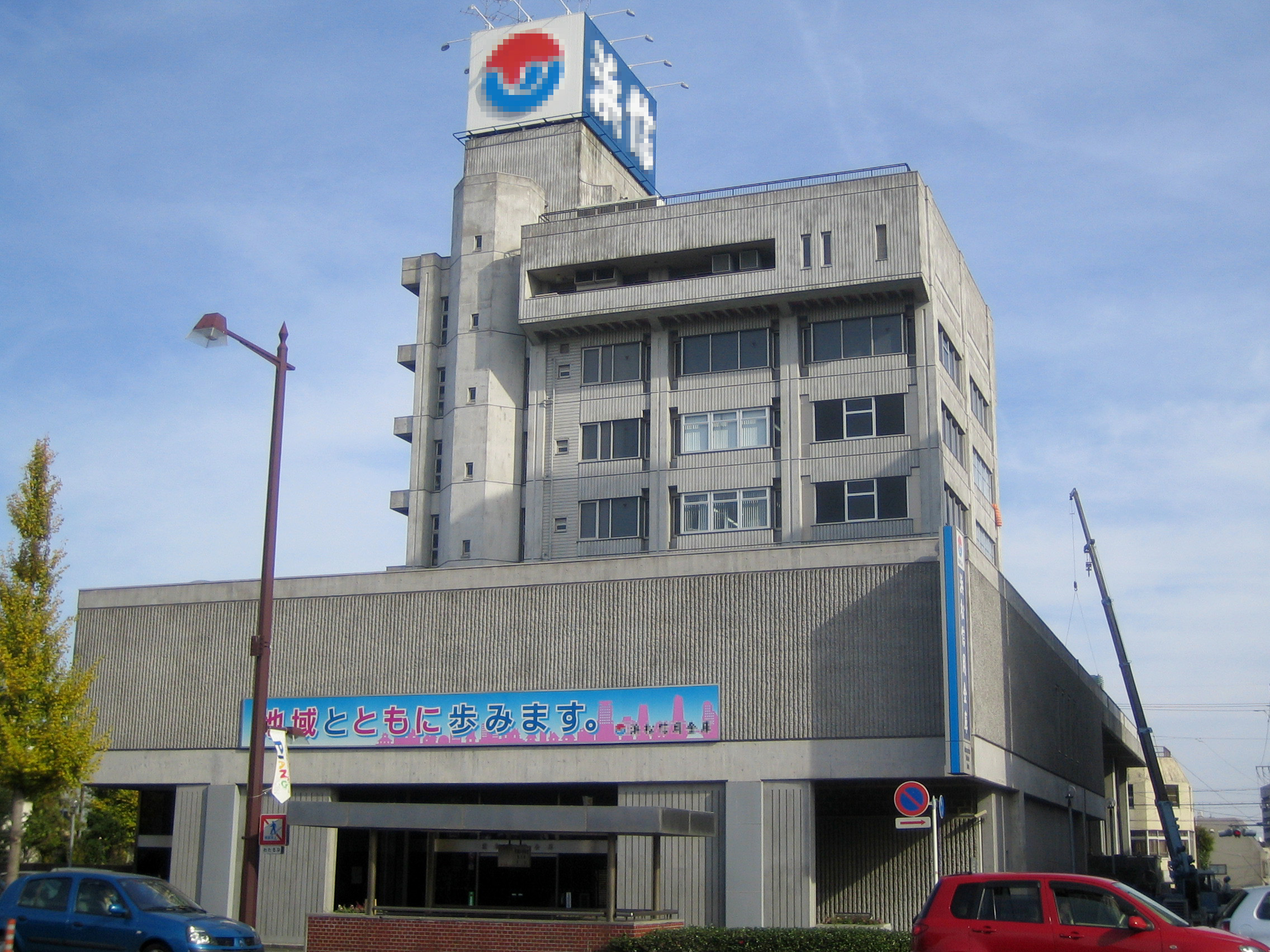 Hamamatsu Shinkin Bank (浜松信用金庫), in Hamamatsu, Shizuoka, Japan